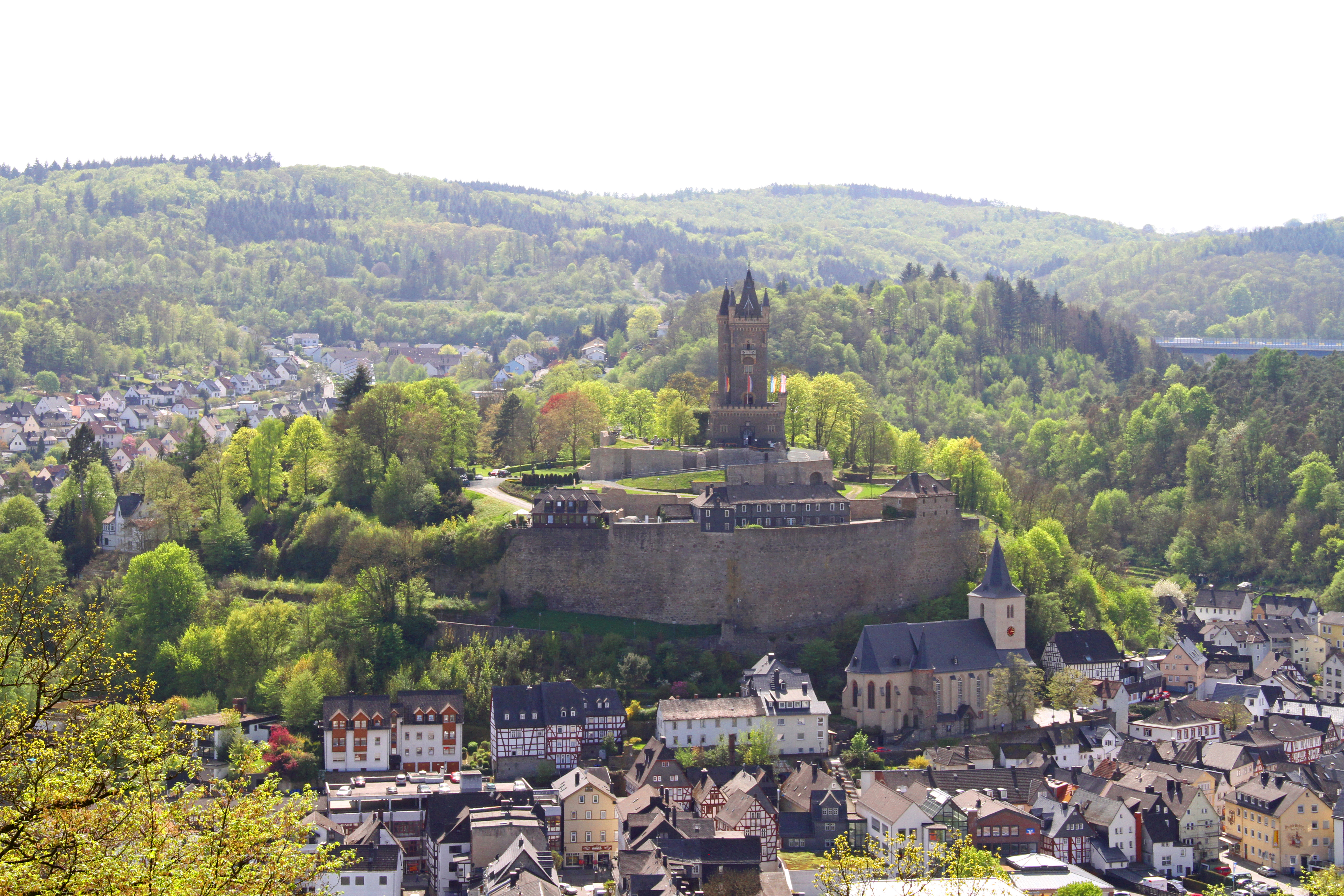 Dillenburg